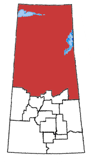 Map of the Desnethé—Missinippi—Churchill River electoral district. Based on Earl Andrew's maps, created by SimonP.